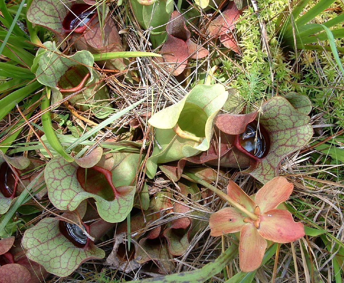 Sarracenia purpurea, the purple pitcherplant; Liberty Co. FL USA